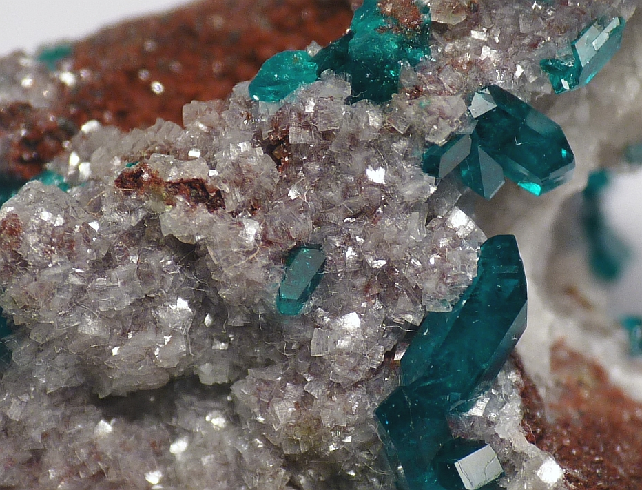 Minrecordite, Dioptase Locality: Tsumeb Mine (Tsumcorp Mine), Tsumeb, Oshikoto Region, Namibia Field of view: 6 mm Ex Al Kidwell collection